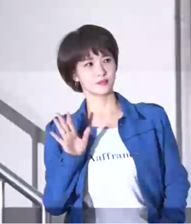 Kim Sun-a, a South Korean actress